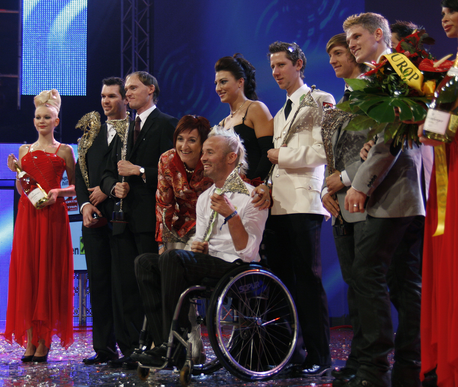 Austrian Austrian Sportspersonalities of the year 2008.